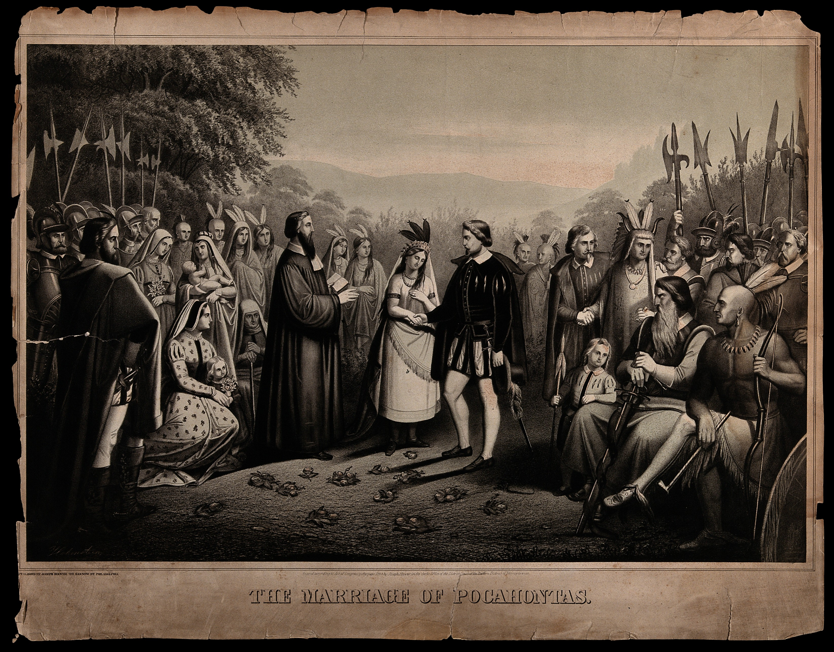 The marriage of Pocohontas to John Rolfe: the couple are shown being married in the open air by a Western priest, surrounded by Native Americans. Iconographic Collections Keywords: Holenstein.